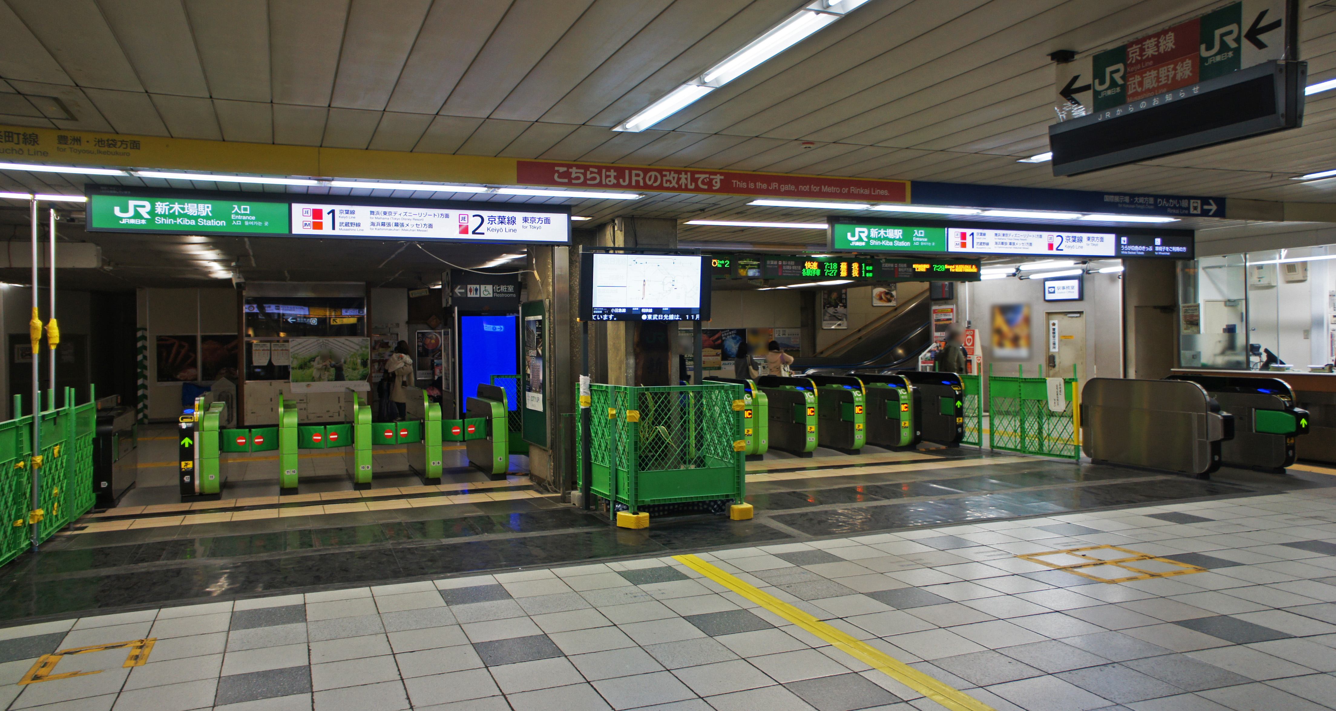 Gates of JR Keiyo-Line Shin-Kiba Station